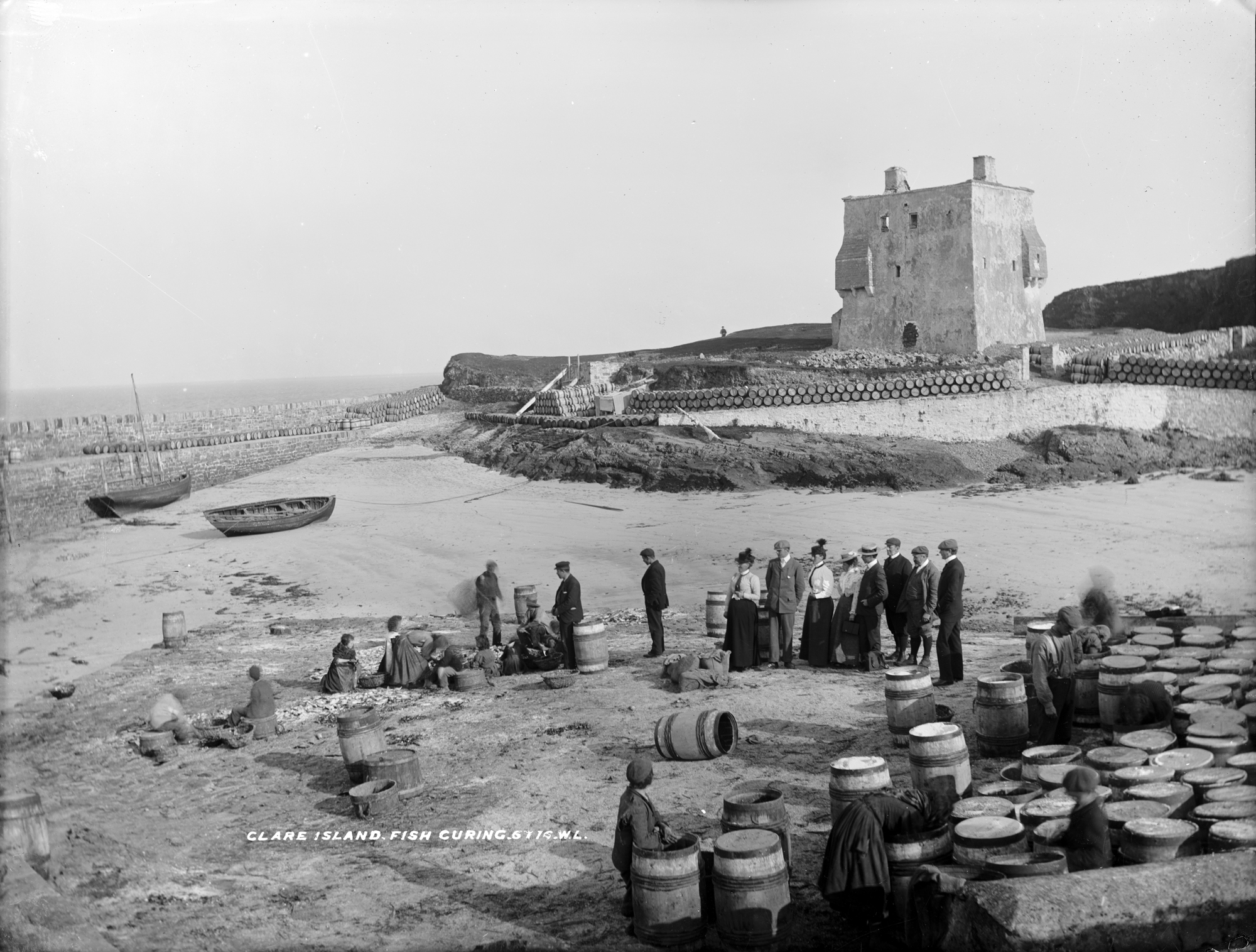 Information on this one from our catalogue: Clare Island is in Clew Bay, Co. Mayo. The tower house in the photograph is known as Granuaile's Castle. A tower house is a medieval fortified house and was the stronghold of the O'Malley family, and it was most closely associated with Grace OMalley, the sixteenth century pirate queen who controlled a large section of the west coast. The tower house was later used as a coastguard building. Fish curing was an important industry on the island, the people at work on the beach are packing barrels with cured fish, and the barrels are stacked around the harbour. The Congested Districts Board became involved in the island in 1895 and encouraged the industry as a means to improve the local economy. This is the main harbour on the island. beachcomberaustralia provided this link for an internal tour of Granuaile's Tower House, aka Carraigahowley or Rockfleet Castle. Date: Circa 1897 as a starting point? (presumably after 1891 as the CDB was set up in that year, and after 1895 as the industry looks well established?) NLI Ref.: L_ROY_06776